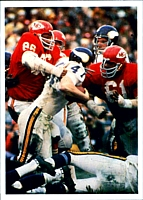 A football card from the 1986 Jeno's Pizza NFL football card stickers set of Kansas City Chiefs defensive linemen Buck Buchanan (left) and Curley Culp (right) tackling Minnesota Vikings running back Dave Osborn (middle) in Super Bowl IV. The card is numbered 50 in the set. The back of the card reads: THE CHIEFS WERE VERY DEFENSIVE Buck Buchanan (86) and Curley Culp (61), Kansas City's defensive tackles, surround Minnesota running back Dave Osborn, as the Chiefs surprise the Vikings 23-7 in Super Bowl IV. Kansas City limited the Vikings to 67 yards on the ground and 239 in all. It was the last Super Bowl before the AFL-NFL merger.